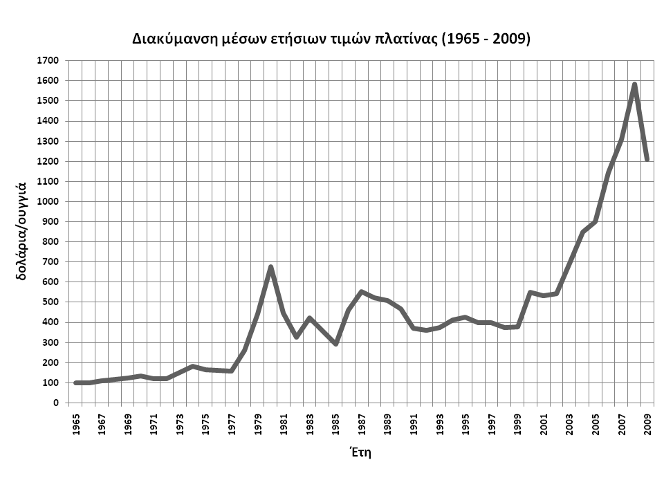 platinum average annual prices 1965-2009